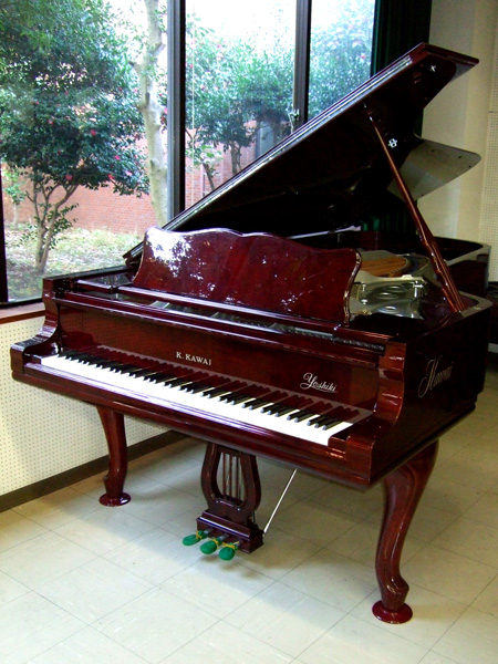 "Yoshiki signature piano" made by Kawai in 1993.